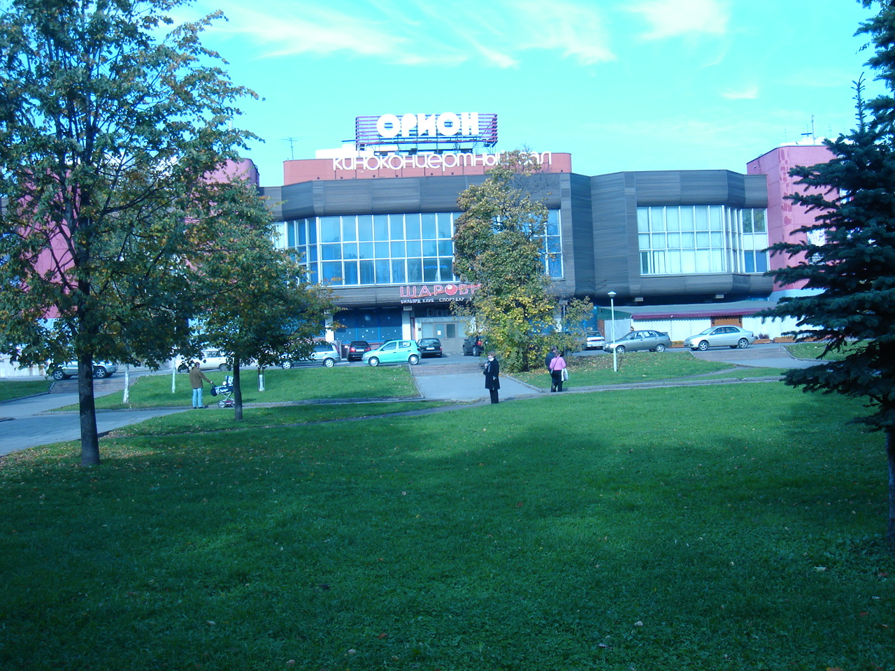 Moscow. Losinoostrovsky district. Cinema "Orion"